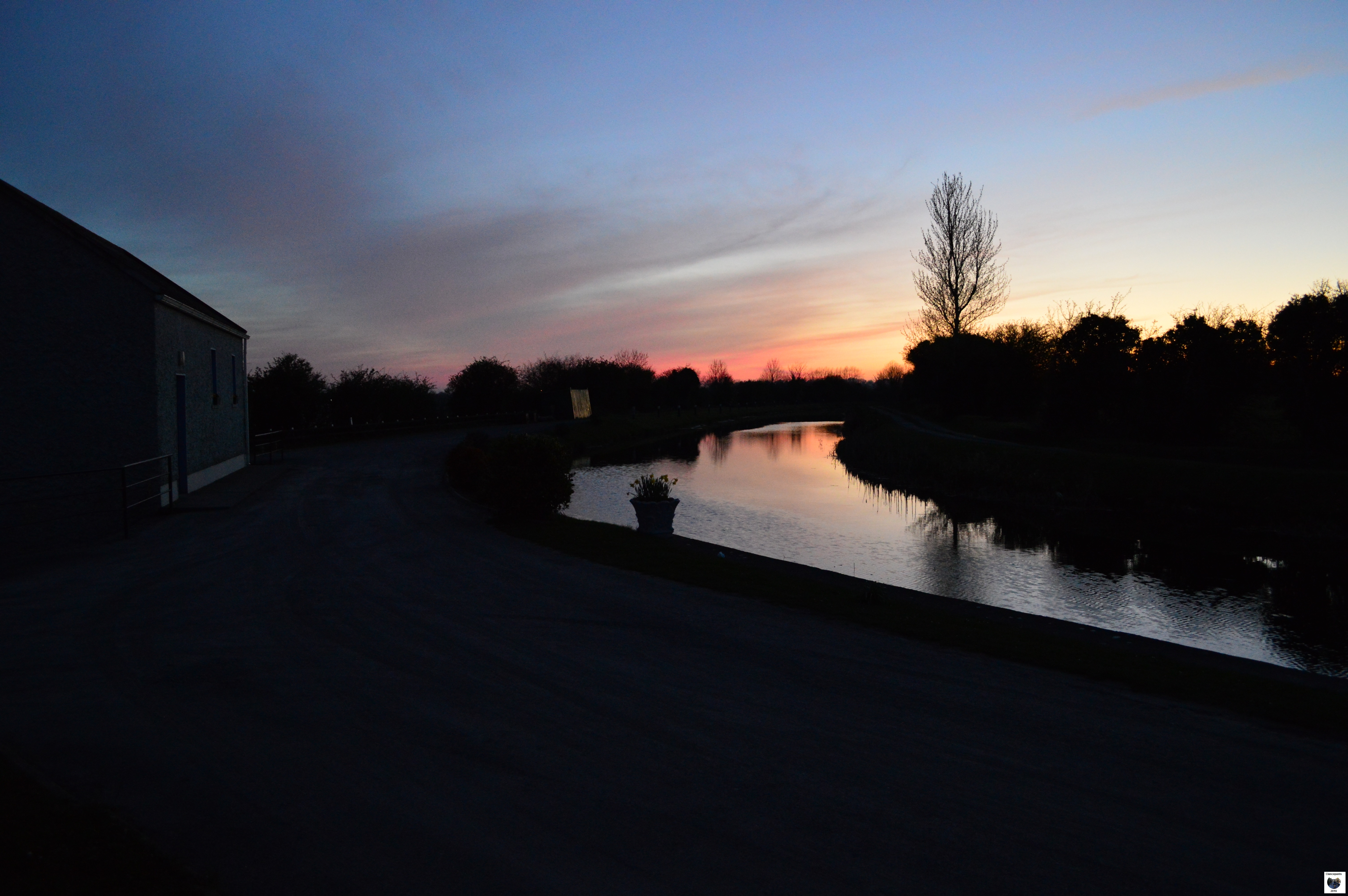 Sunset at Brannigan Harbour